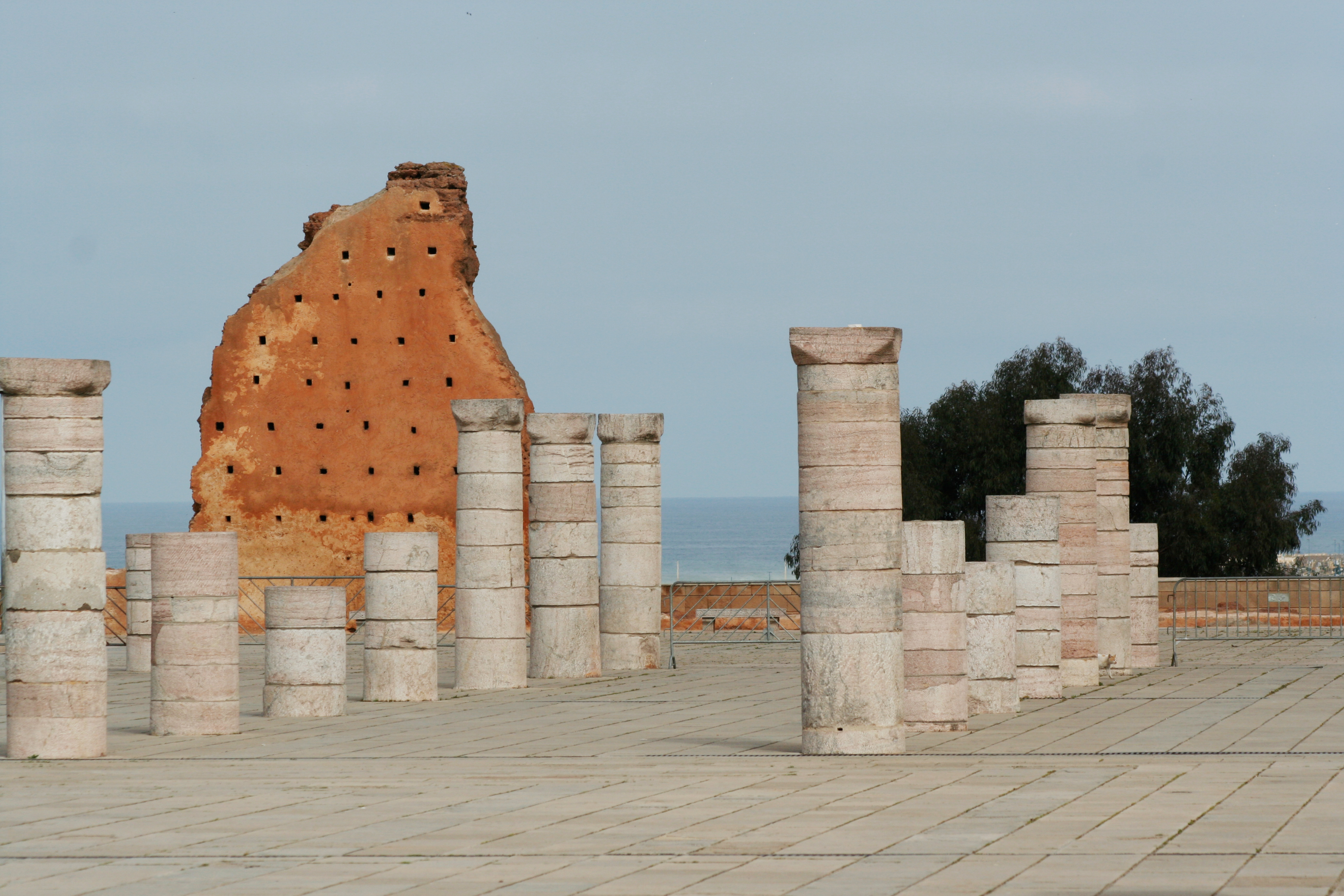 Remnants of wall at Hassan Tower, Rabat, Morocco